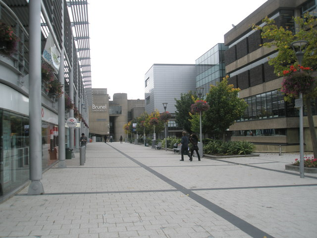 HSBC at Brunel University